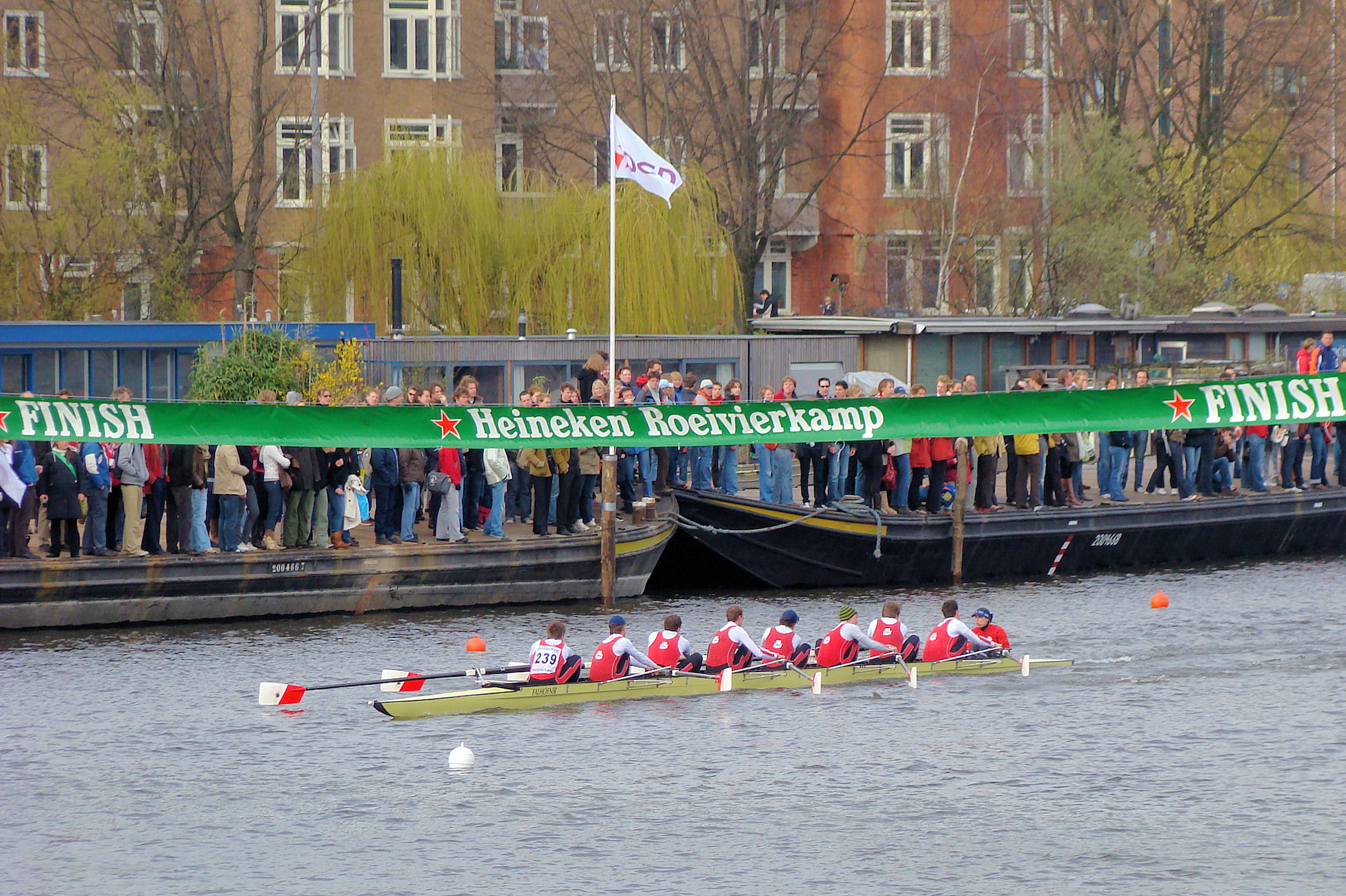 Heineken is sole sponsor of the annual rowing contest for students ('roeivierkamp') on the Amstel river in Amsterdam .